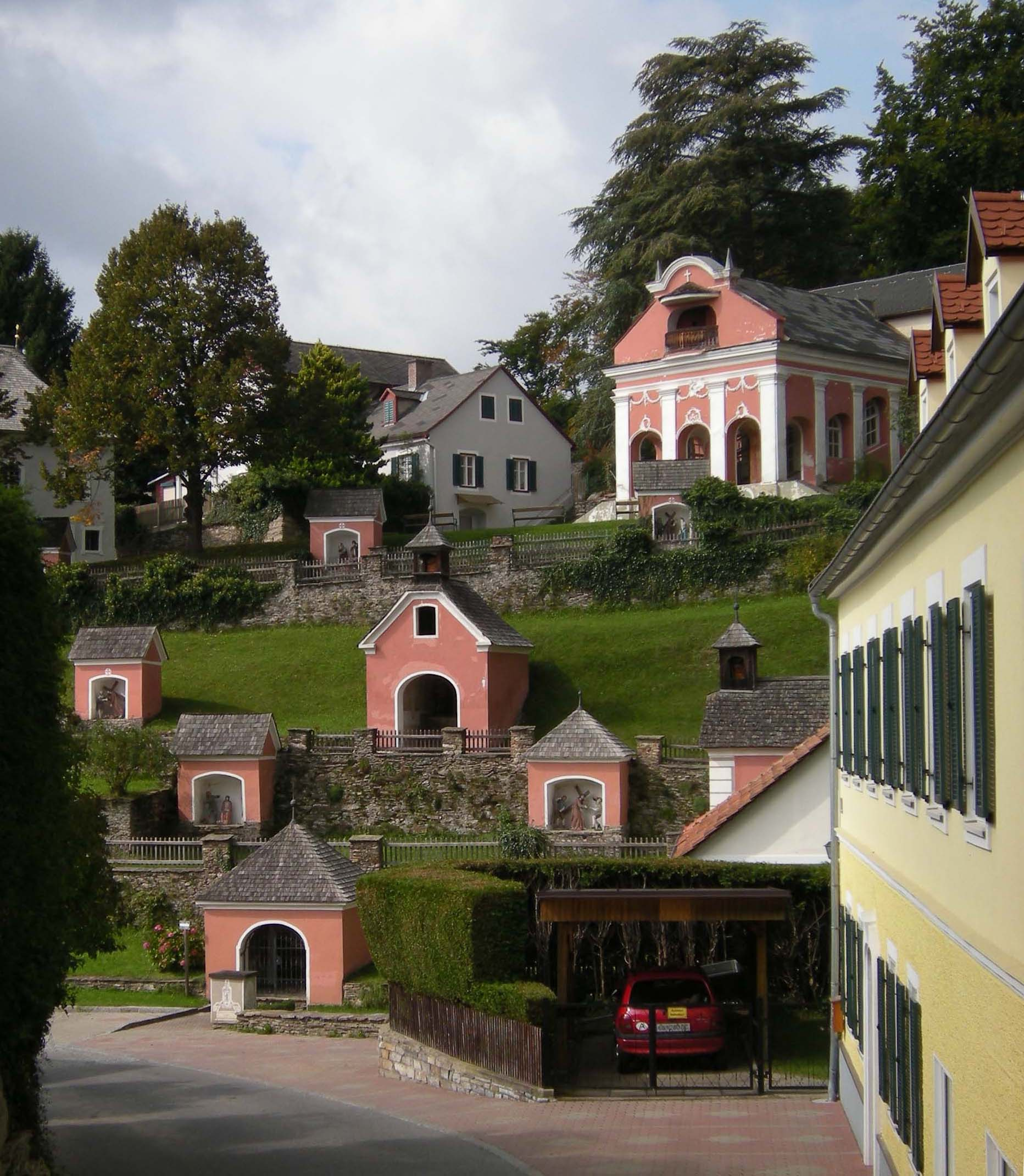 Sankt Radegund bei Graz views